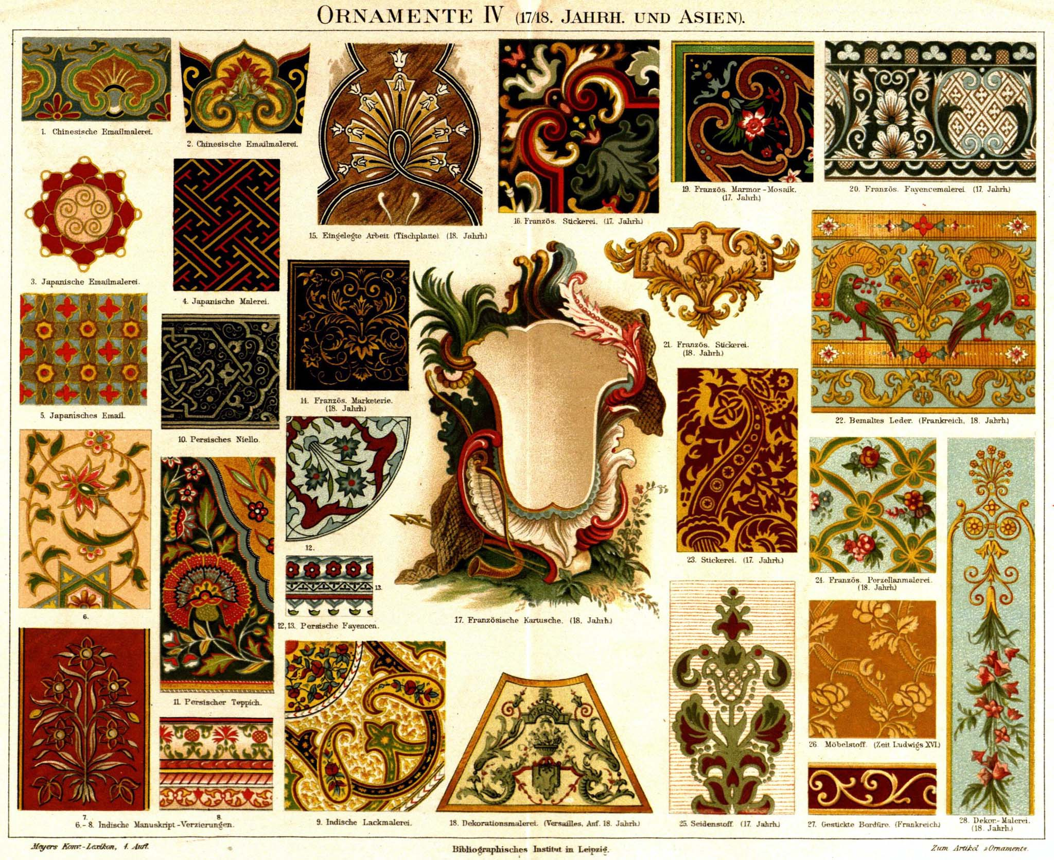 This is page 450d, as numbered of 1028, in Volume 12 of the German illustrated encyclopedia Meyers Konversationslexikon, 4th edition (1885-1890), fraktur font, title "Ornaments Ornamente IV (17/18th Century and Asia)" showing 28 types of ornaments (ornamental designs) c. 1888.